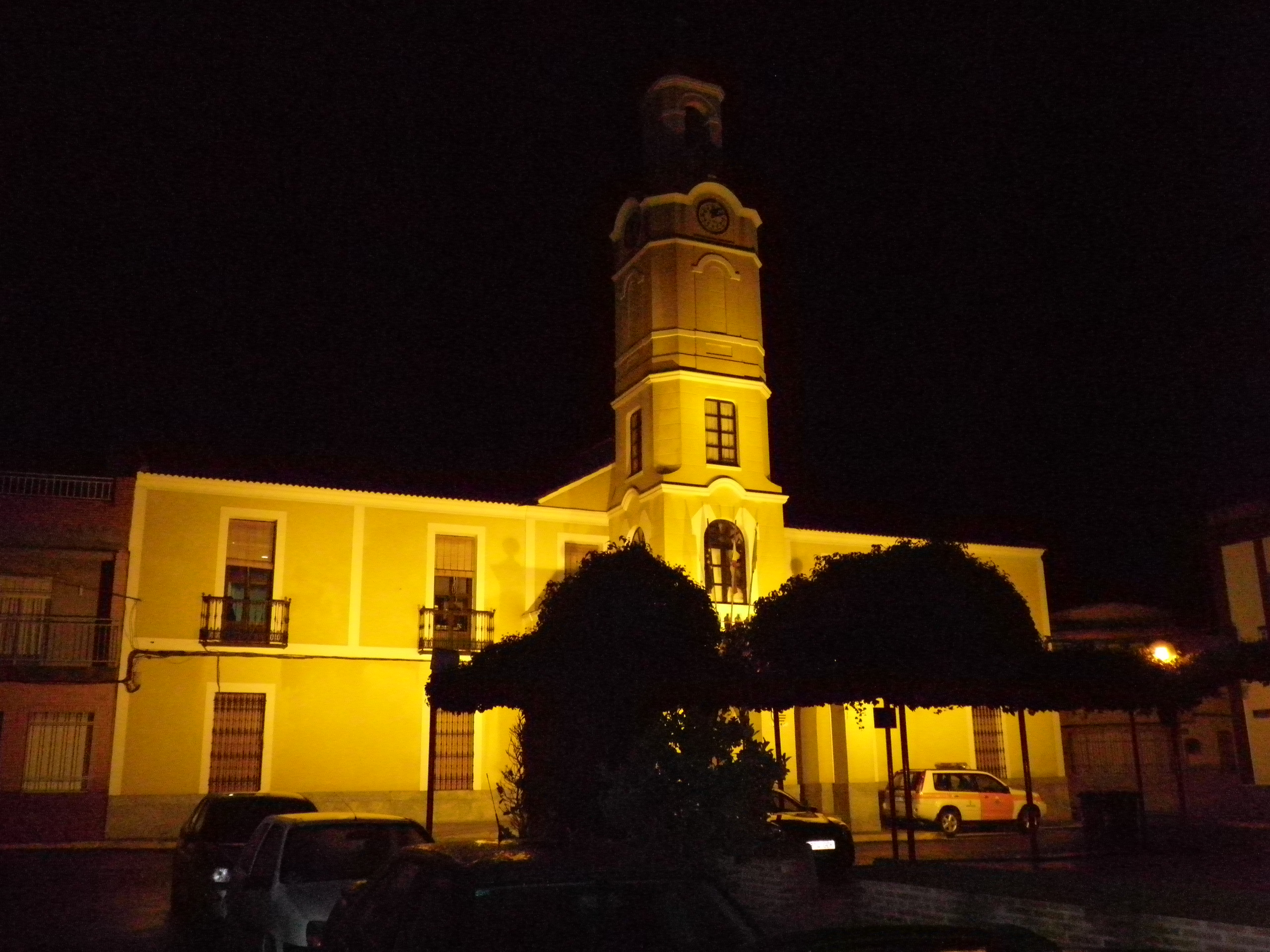 Citycouncil Square, Malagón, Spain.